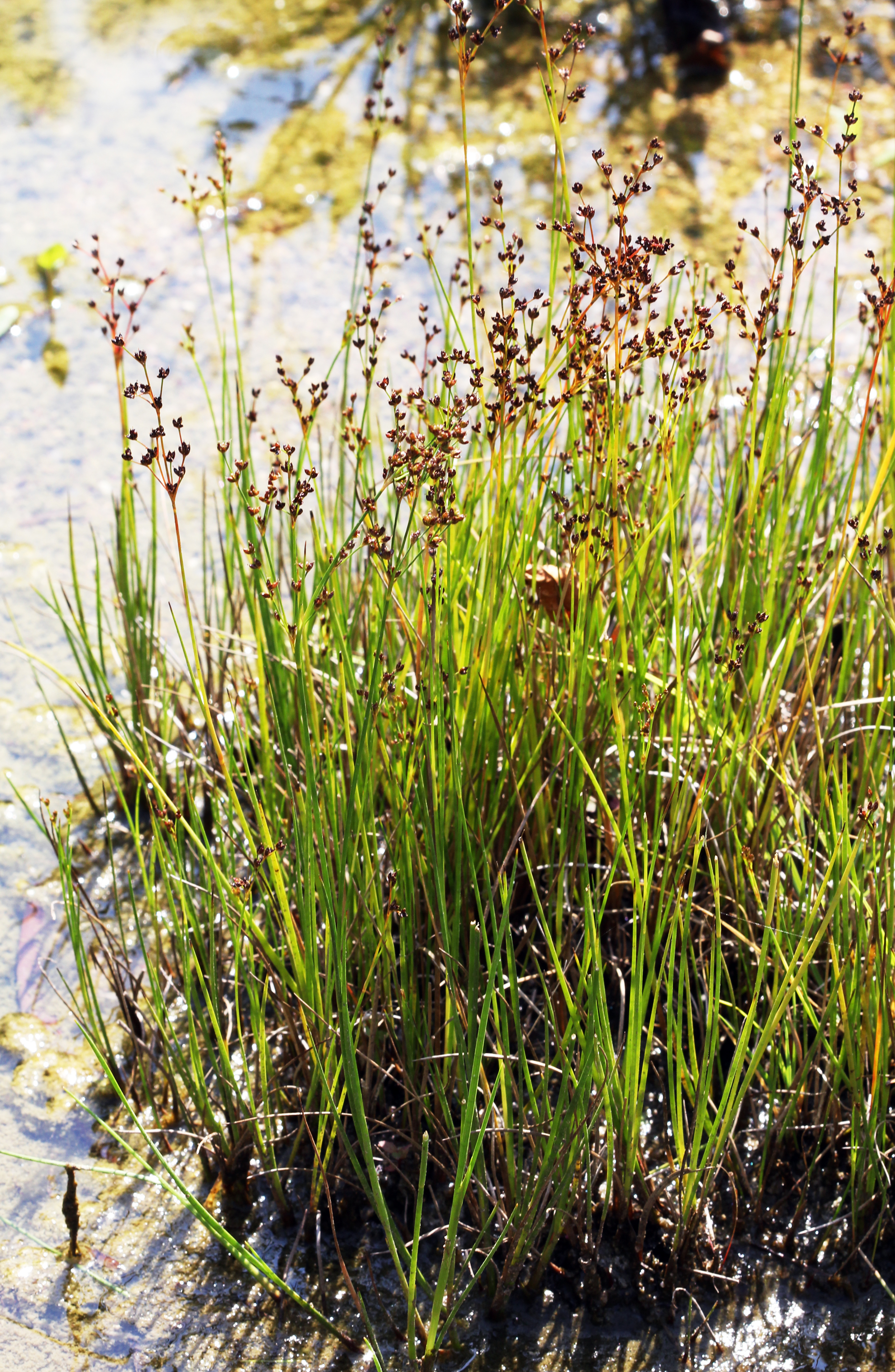 Plant Juncus articulatus, (Juncus articulatus), the Botanical Gardens of Charles University, Prague, Czech Republic